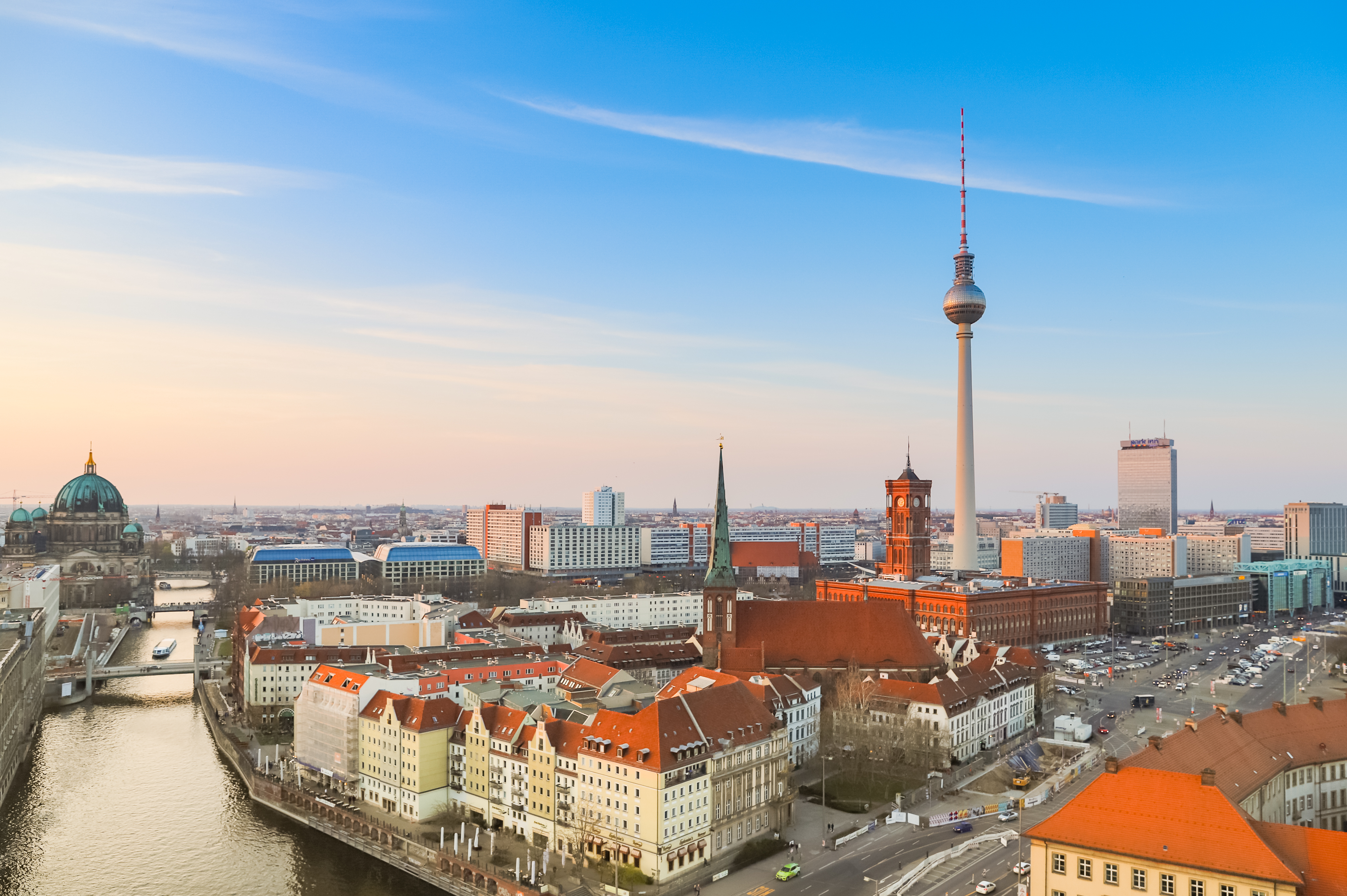 Aerial view of Berlin